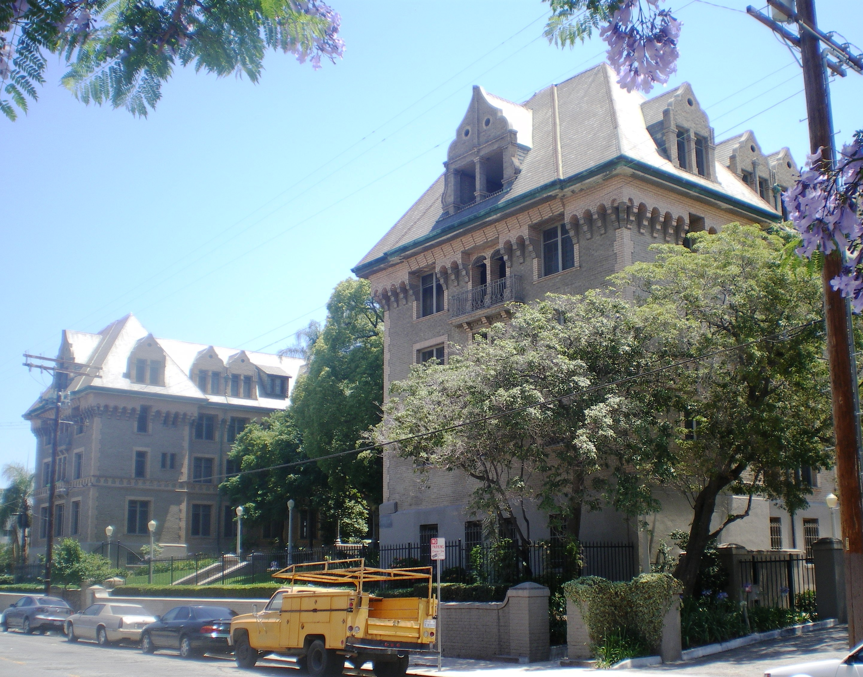 Mary Andrews Clark Residence of the YWCA — 306-336 South Loma Drive, Westlake district, west-central Los Angeles, California. The 1913 Châteauesque style residence of the YWCA was built/donated by copper magnate William A. Clark, as a memorial to his mother who died in LA. Renovated in 1995 for housing of low income single workers.